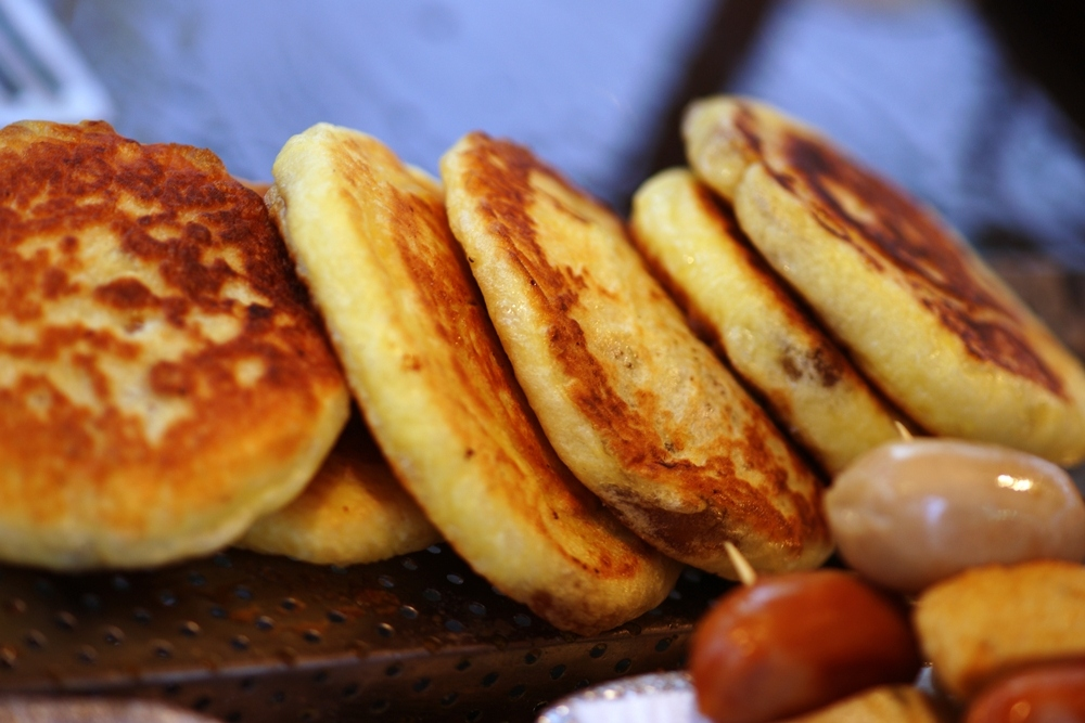 Hotteok is a unique Korean snack made with wheat flour dough filled with dark brown sugar, cinnamon, sesame, and chopped peanuts